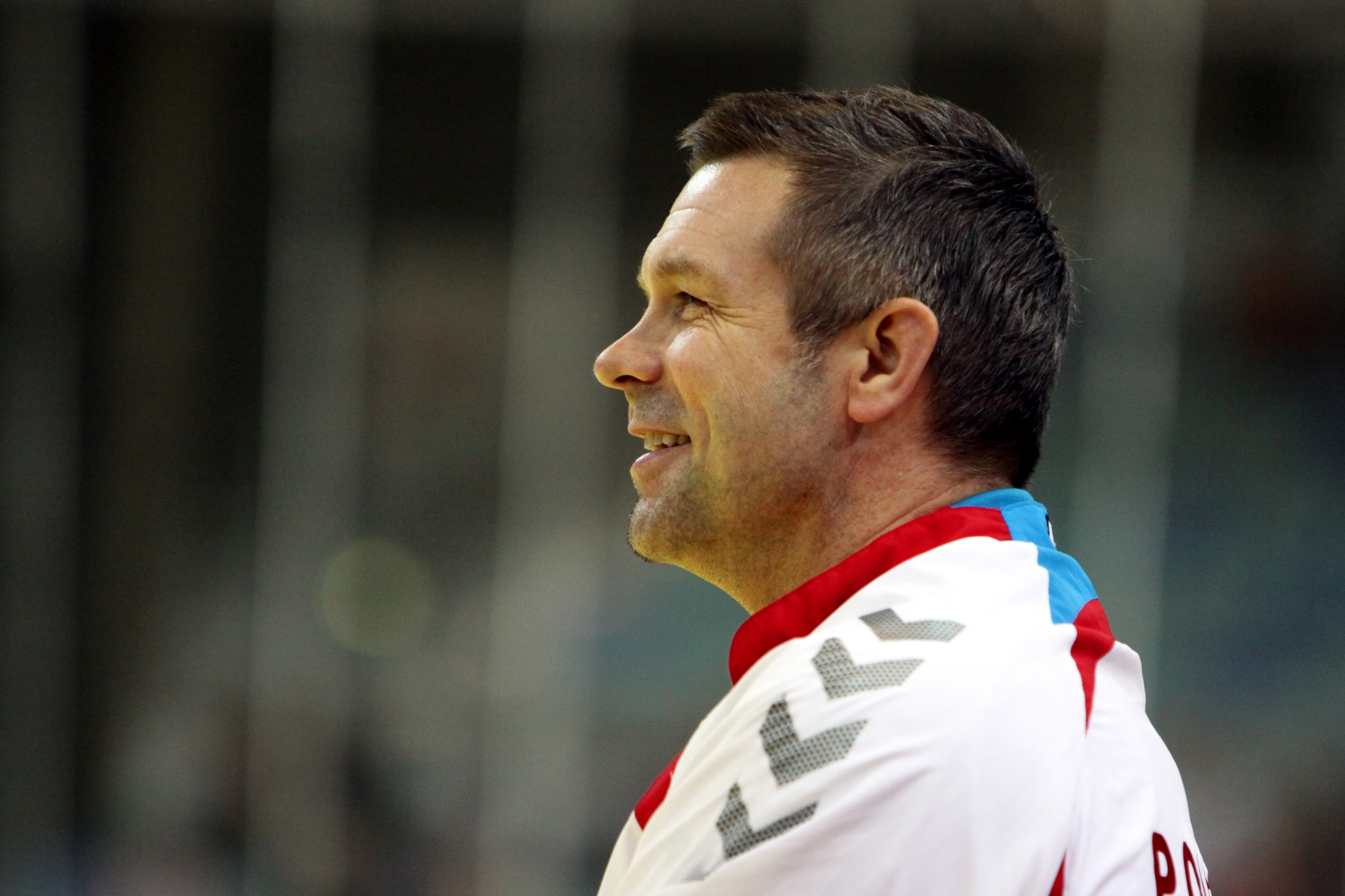 Bogdan Wenta (Teamchef), Poland national handball team